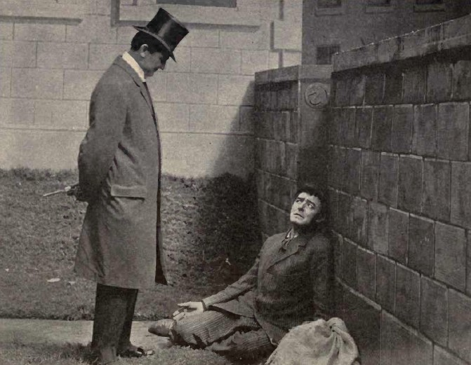 Still from the film Van Bibber's Experiment (USA 1911), directed by Ashley Miller and starring Robert Conness and Marc McDermott. Still published in David S. Hulfish, Cyclopedia of Motion-Picture Work (1914).